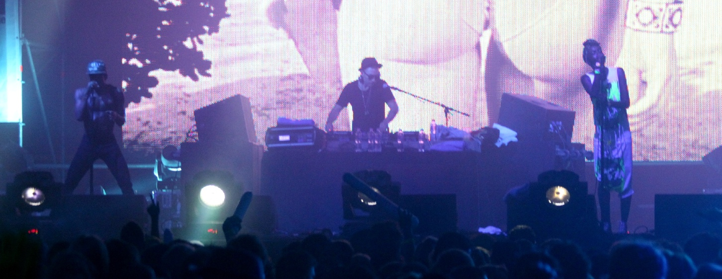 Azari & III performing at the Sziget Festival in Budapest, Hungary